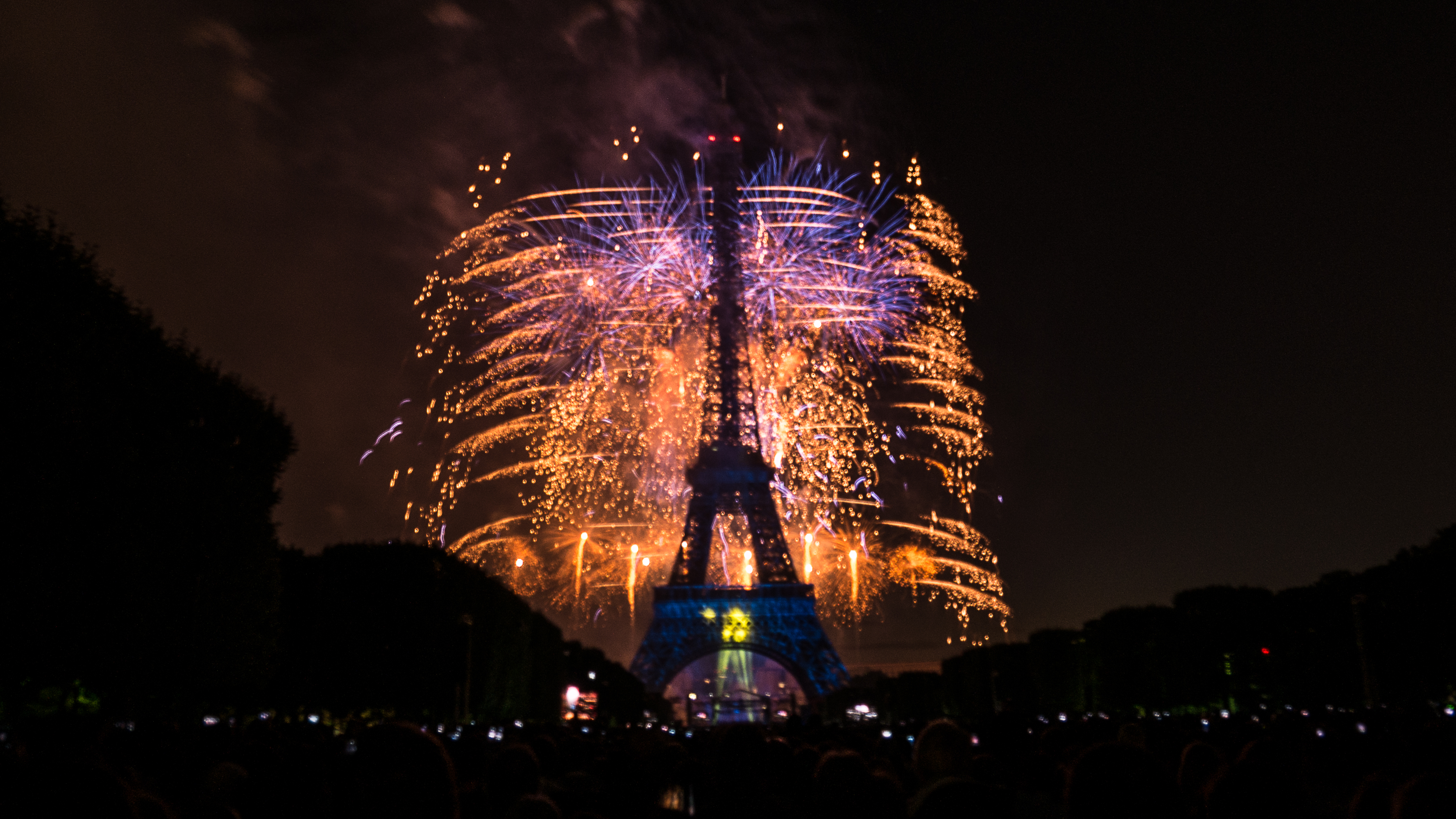 Fireworks on Eiffel Tower, 2014 Bastilleday in Paris.